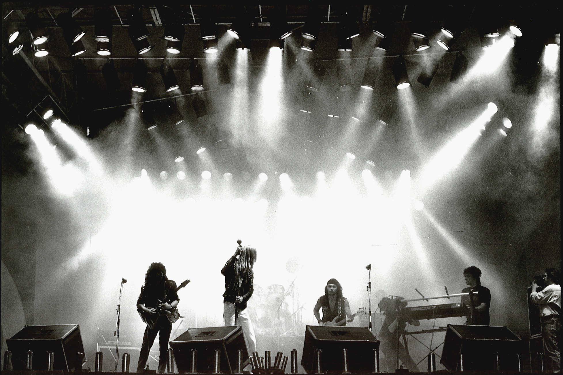 Conquerors Kragujevac